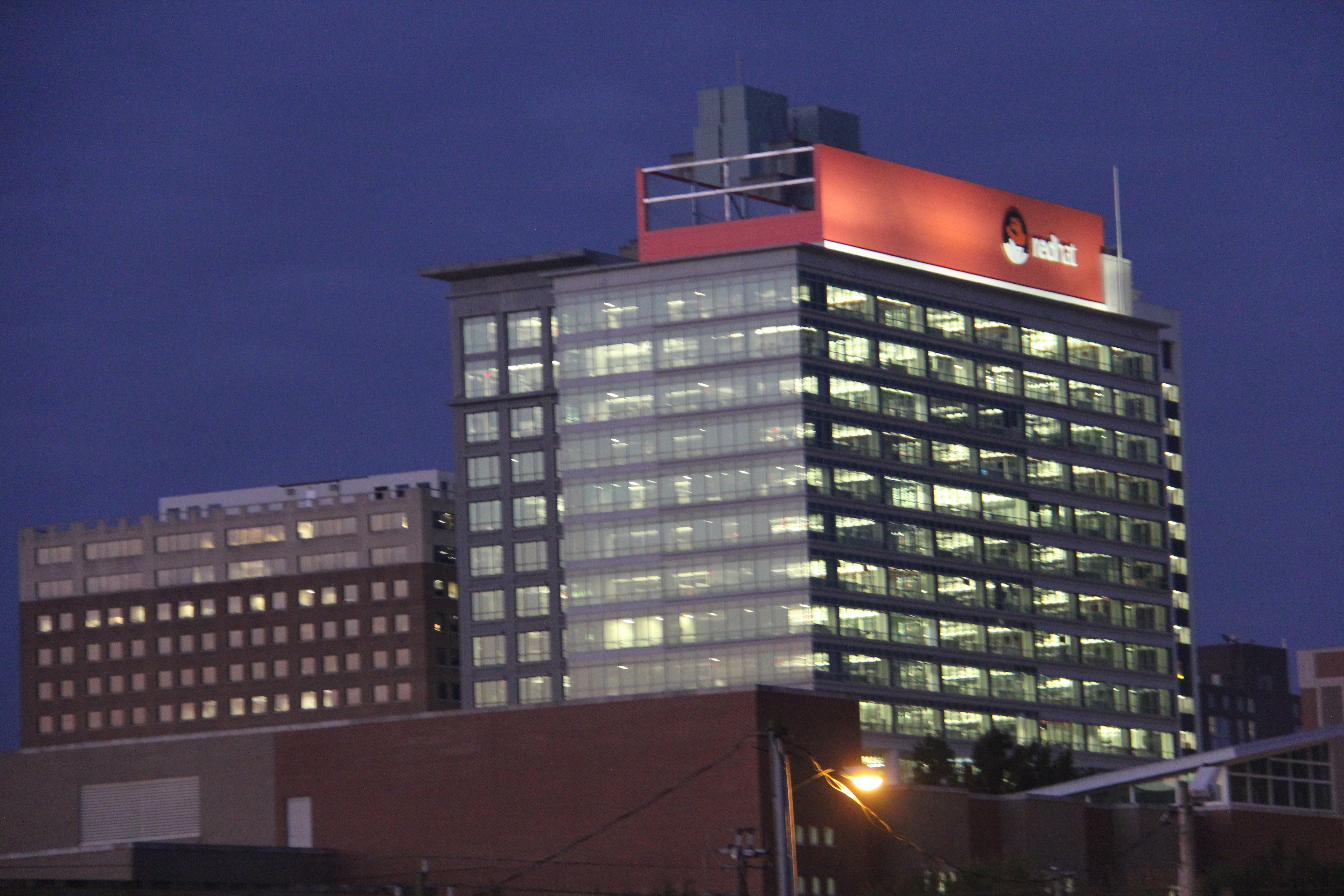 Raleigh's Red Hat Tower as seen on the morning of 29 Oct 2013.